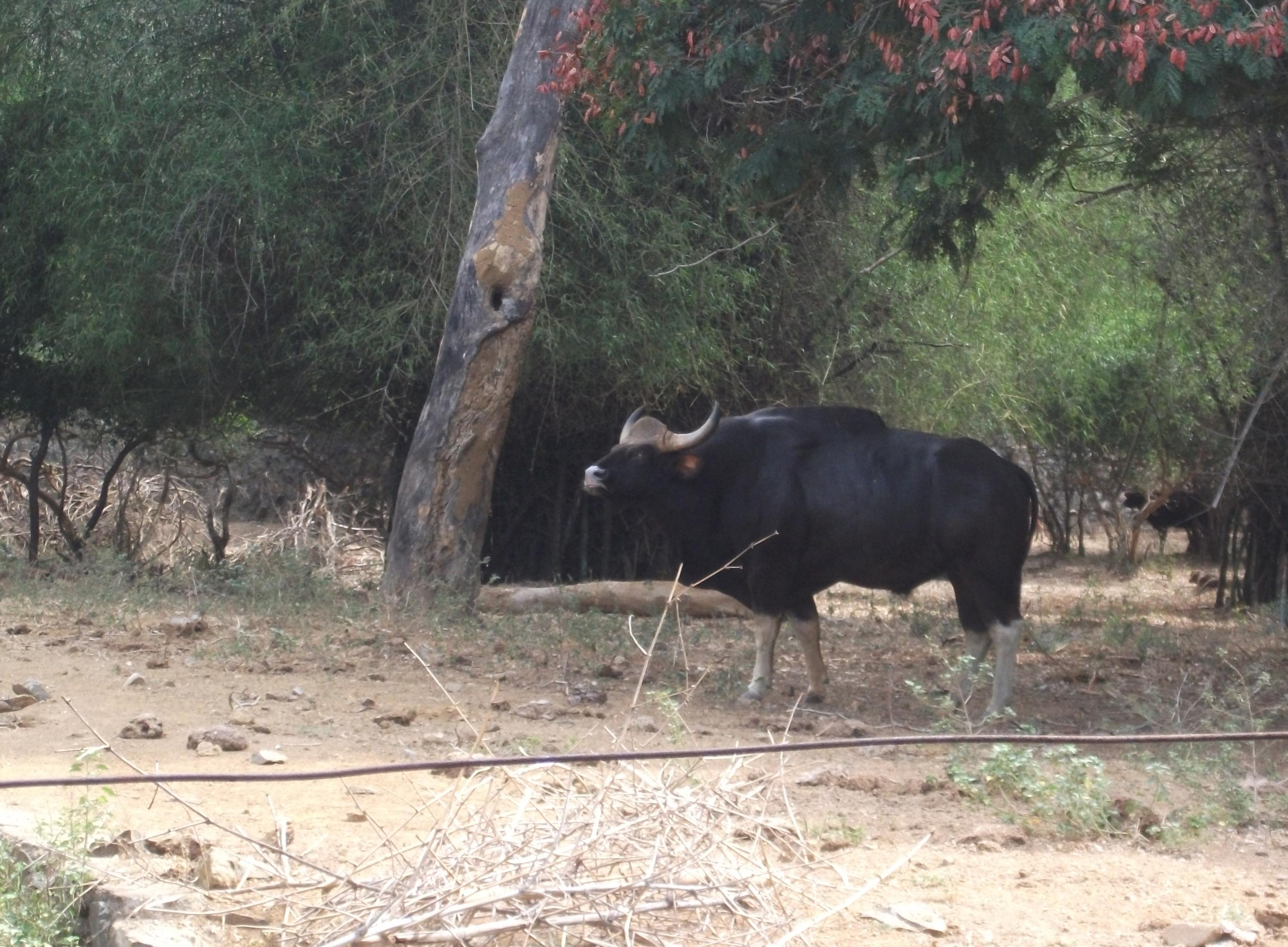 The largest cattle in the world, the Gaur